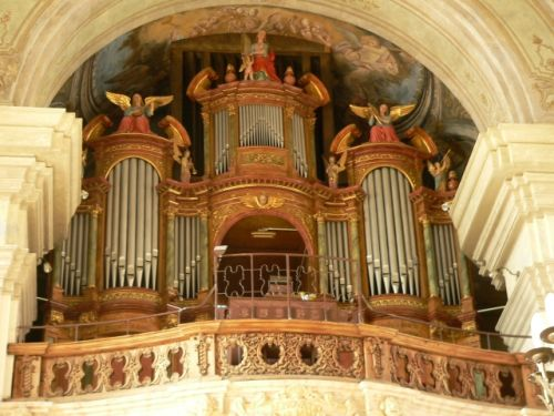 The pipe organ of Gebruder Walter in St. Cross Church in Brzeg, Poland